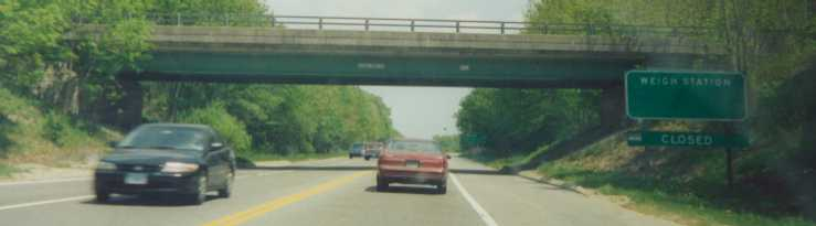 US 6 east on the bypass in Scituate, Rhode Island. Taken May 12, 2001 by SPUI.